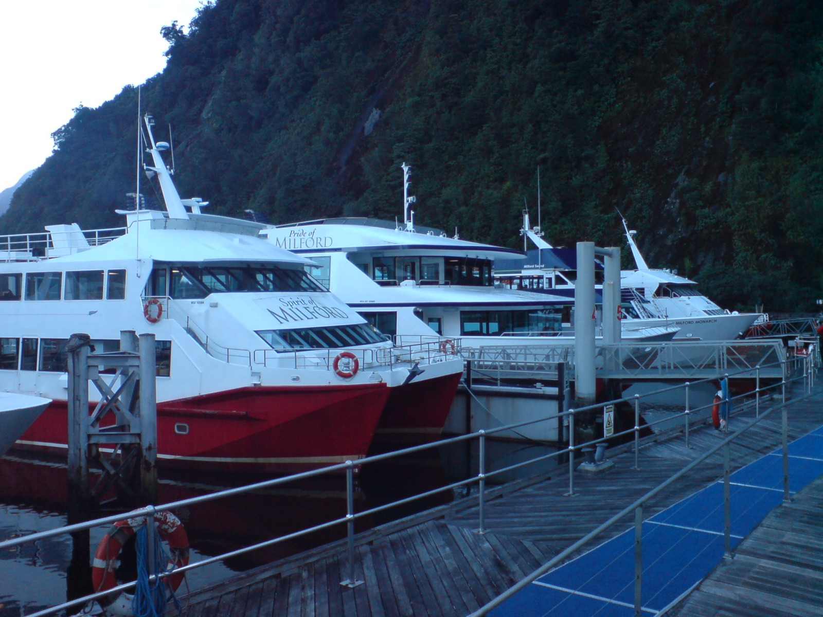 Some of the tour boats at Milford Sound, New Zealand. The sound receives the majority of its tourists within 3-4 hours around / after noon, leading to a very pronounced use peak. During other times of the day (such as in this example), the boats lie empty.